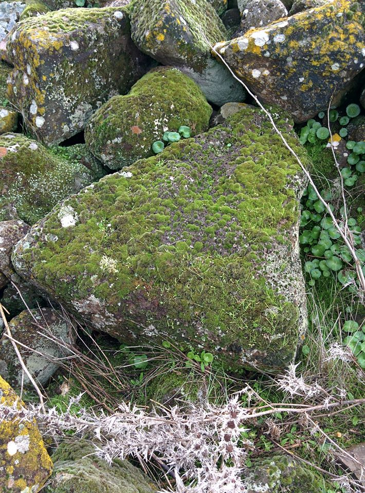 Nuraghe dom e campu - ruins